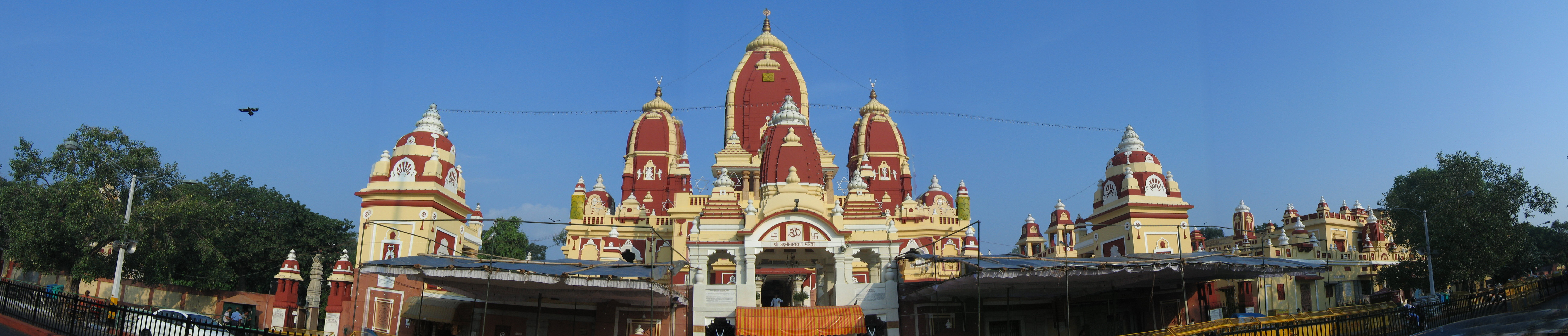 Birla Mandir Delhi, a panoramic view